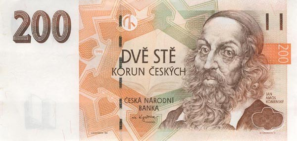 Obverse of Czech koruna two-hundred crowns bill.